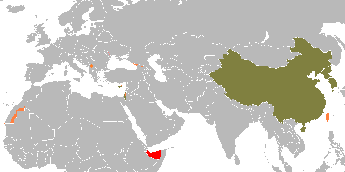 List of states with limited recognition or without recognition. This is a map of states that meet the inclusion criteria at Непризнанные и частично признанные государства#Свойства непризнанных и частично признанных государств.